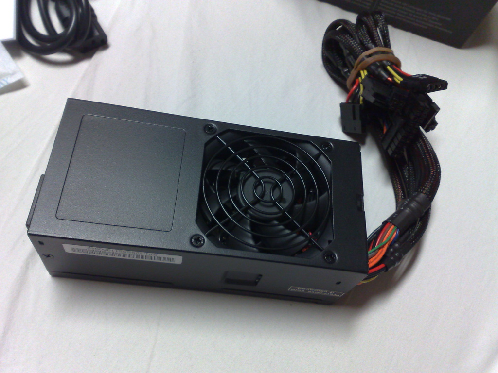 Be quiet! TFX POWER 2 Gold, 300 W (p/n: BN229)